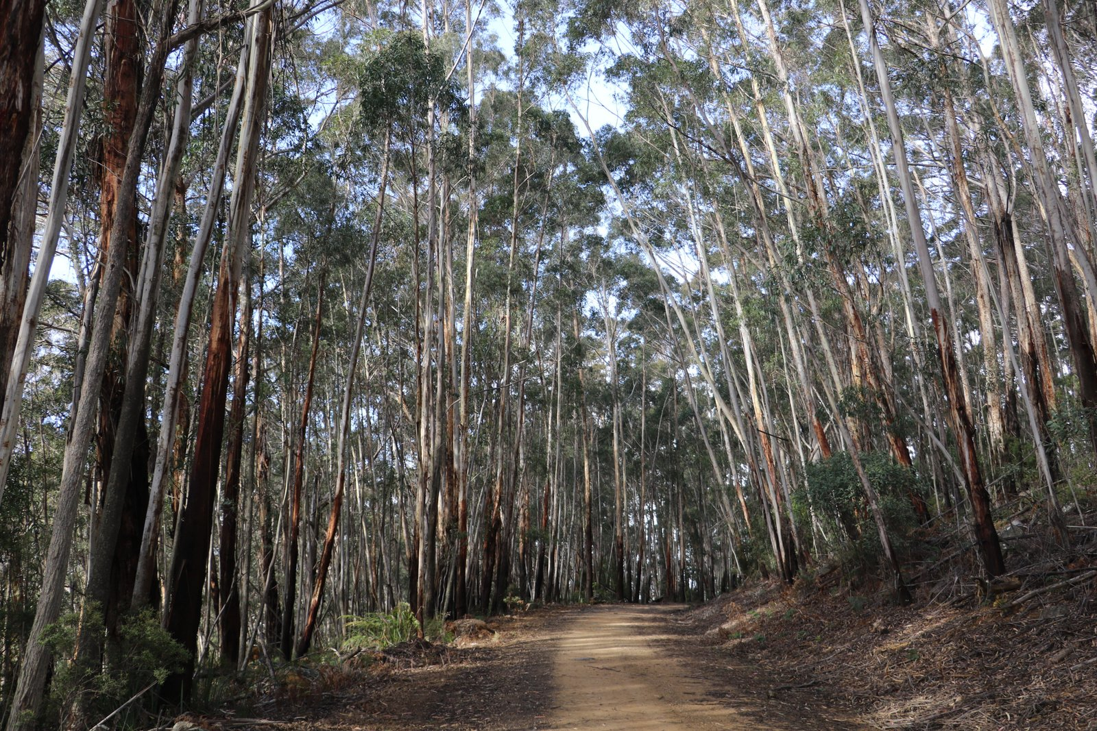 Eucalyptus fraxinoides on Fastigata road, Brown Mountain. NSW, Australia.